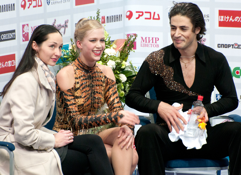 2011 Cup of Russia, short program.